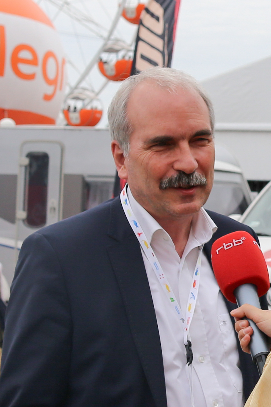 Przystanek Woodstock in 2017.